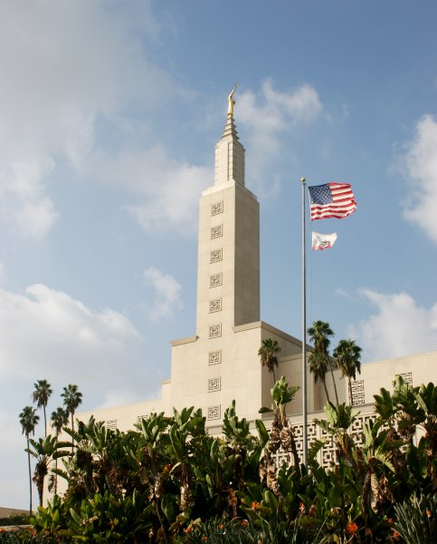 The Los Angeles Temple of The Church of Jesus Christ of Latter-day Saints.